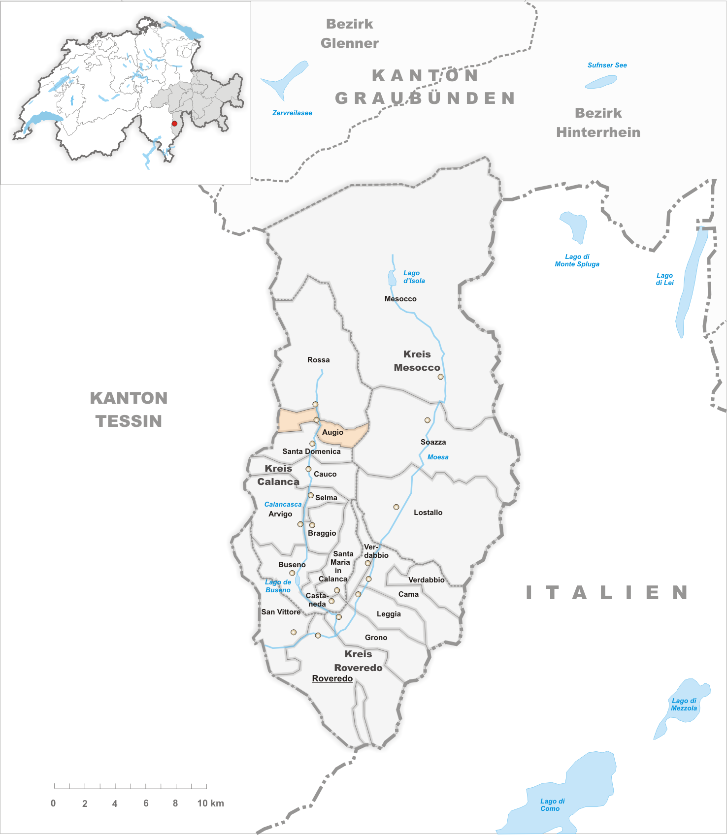 Municipality Augio Artist: Tschubby